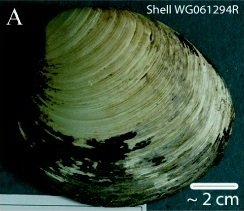 Left valve of Arctica islandica shell WG061294R collected from the north Icelandic shelf. （Ming）